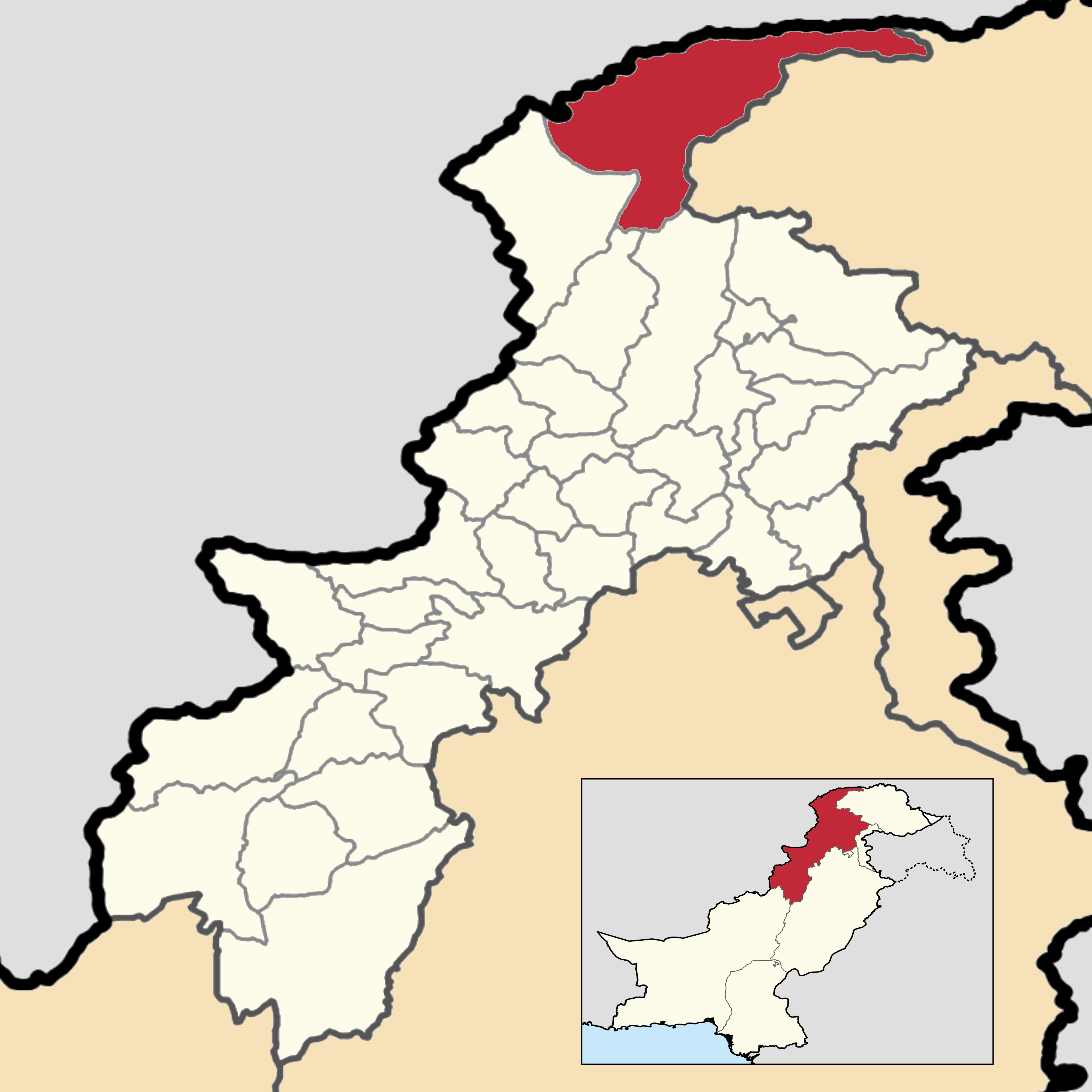 This is a map showing the location of Upper Chitral District within Khyber Pakhtunkhwa Province. You can find information about the sources used on this map, showing every district in Khyber Pakhtunkhwa Province. This map and its borders are up to date as of June 16, 2020.